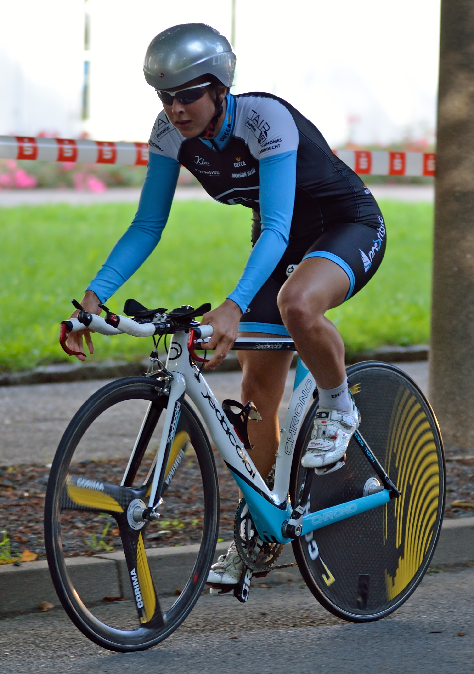 Evelyn Arys from the Kleo Ladies Team during the Women's Tour of Thuringia 2012 in Zwickau, Germany.